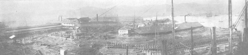 Kawasaki Shipyards Co., Ltd. before 1911.